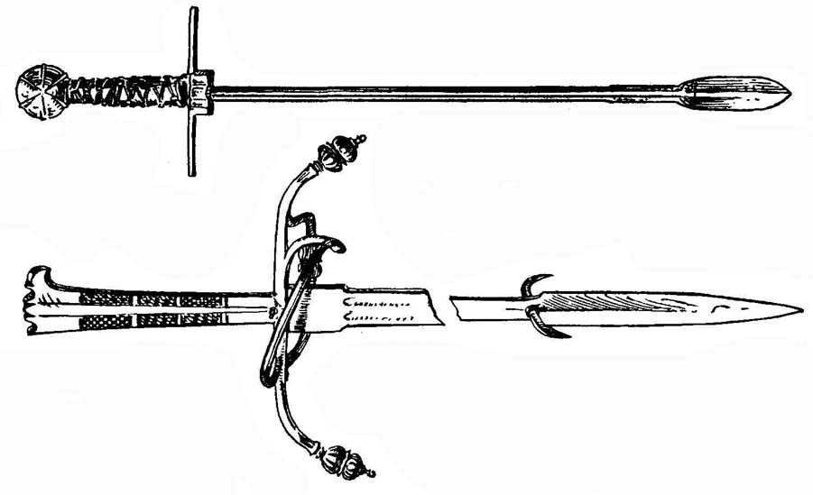 Hunting sword for boars - illustration from a book "Handbuch der Waffenkunde" Das Waffenwesen in seiner historischen Entwicklung vom Beginn des Mittelalters bis zum Ende des 18 Jahrhunderts" by Wendelin Boeheim, Leipzig, 1890